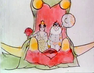 A film still from Winsor McCay's 1911 animated film Little Nemo. Nemo and the Princess ride in the mouth of a dragon.